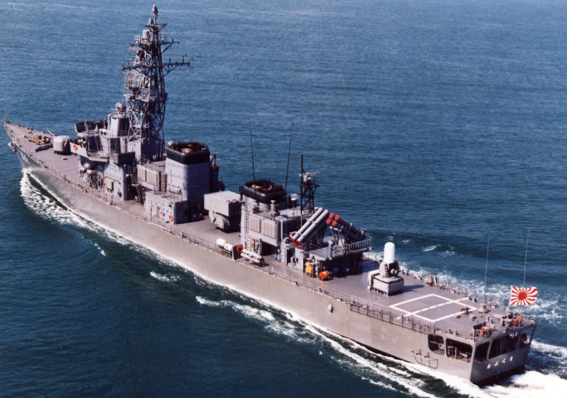 JS Abukuma (DE-229)